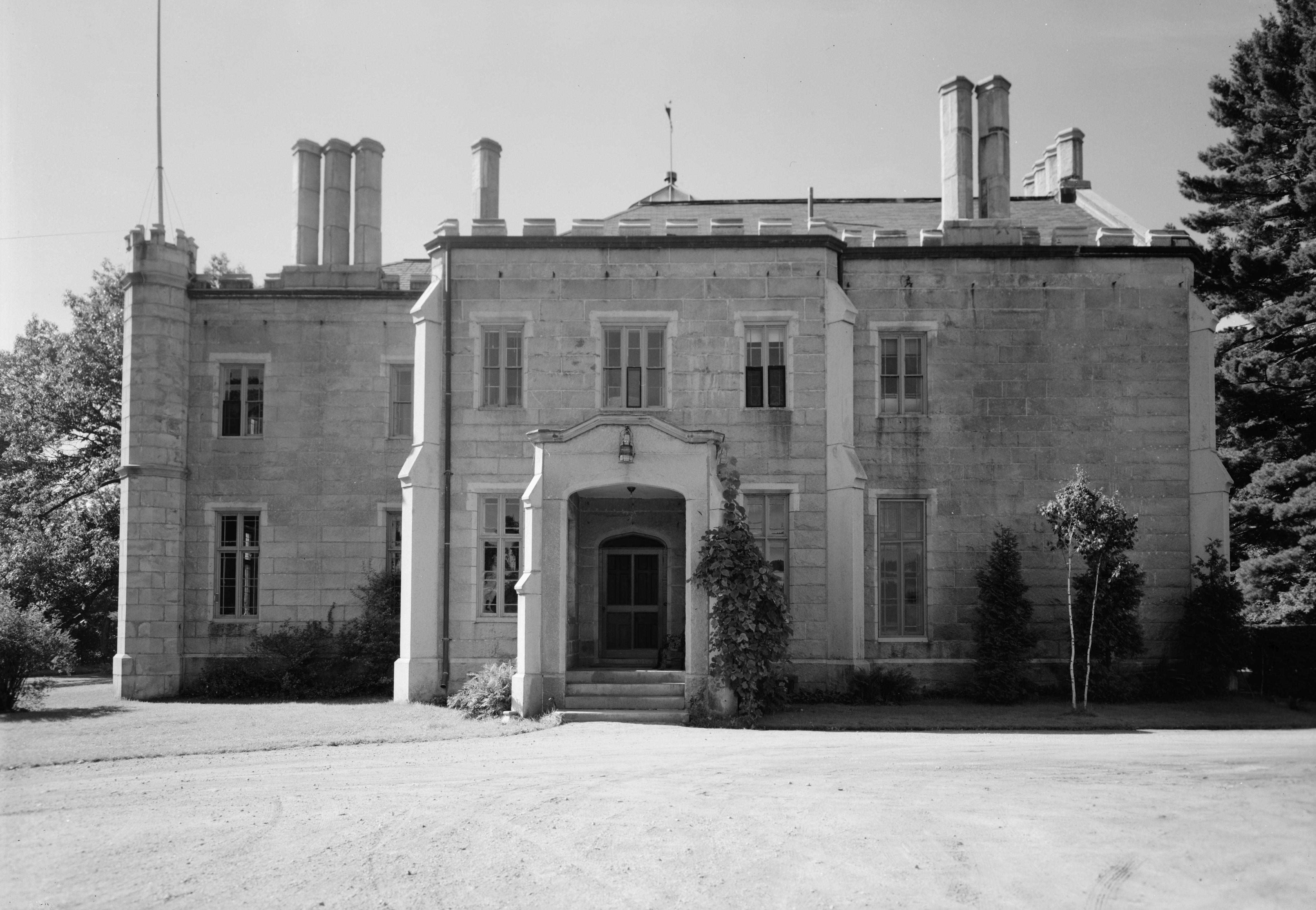 Front of Oaklands, located at the southern end of Dresden Street in Gardiner, Maine, United States. Built in 1835, it is listed on the National Register of Historic Places.